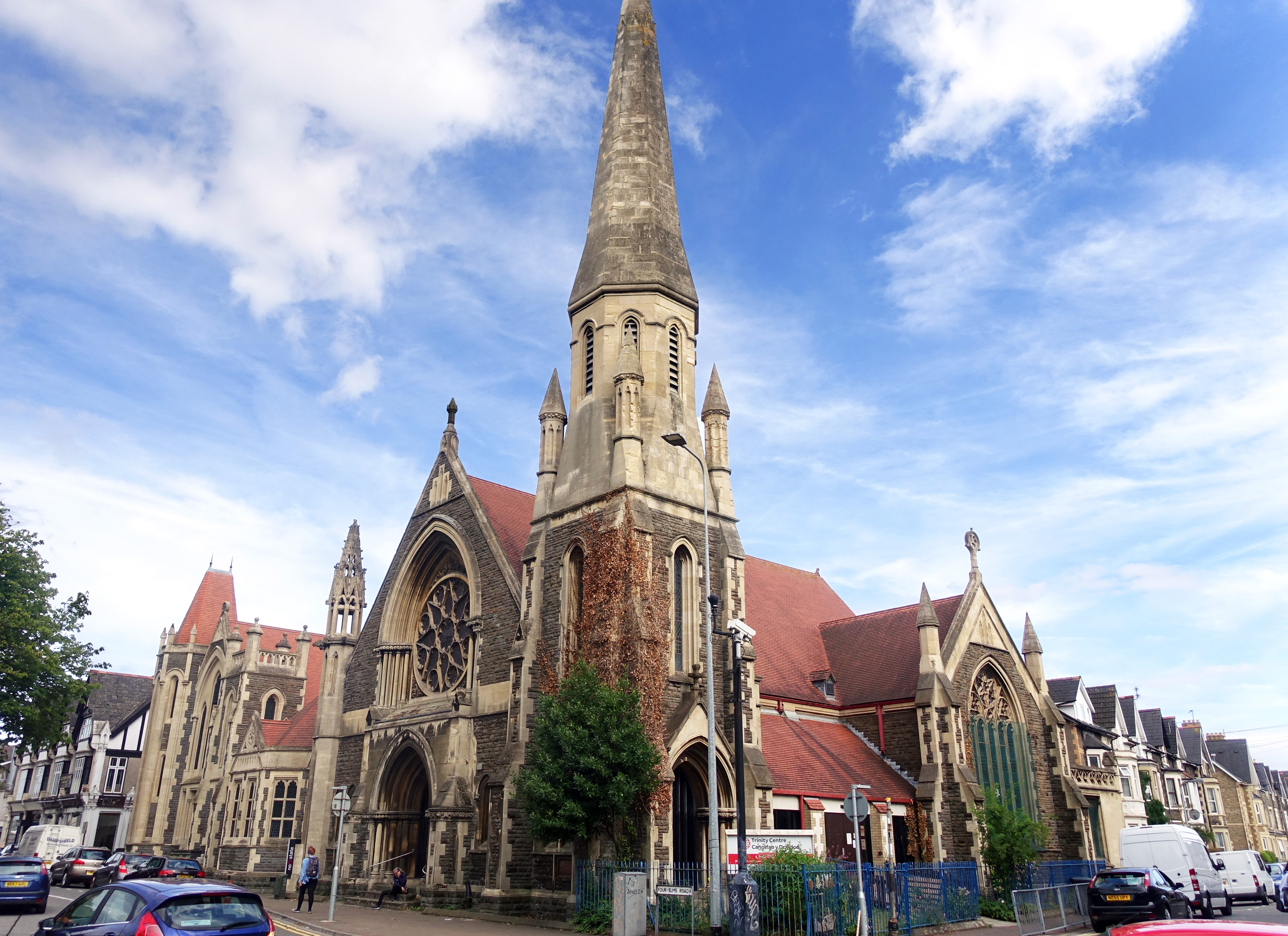 Trinity Methodist Church in Cardiff. Wikidata has entry Q29491962 with data related to this item.